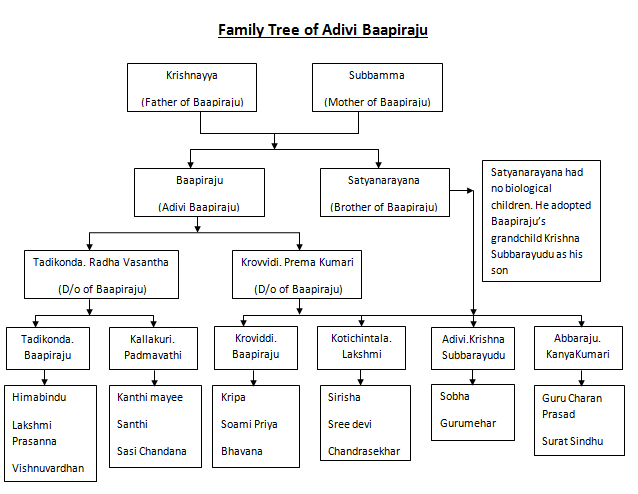 This Family tree is from the parents of Baapiraju to his great grand children